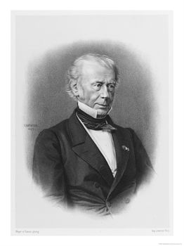 Jean-Pons-Guillaume